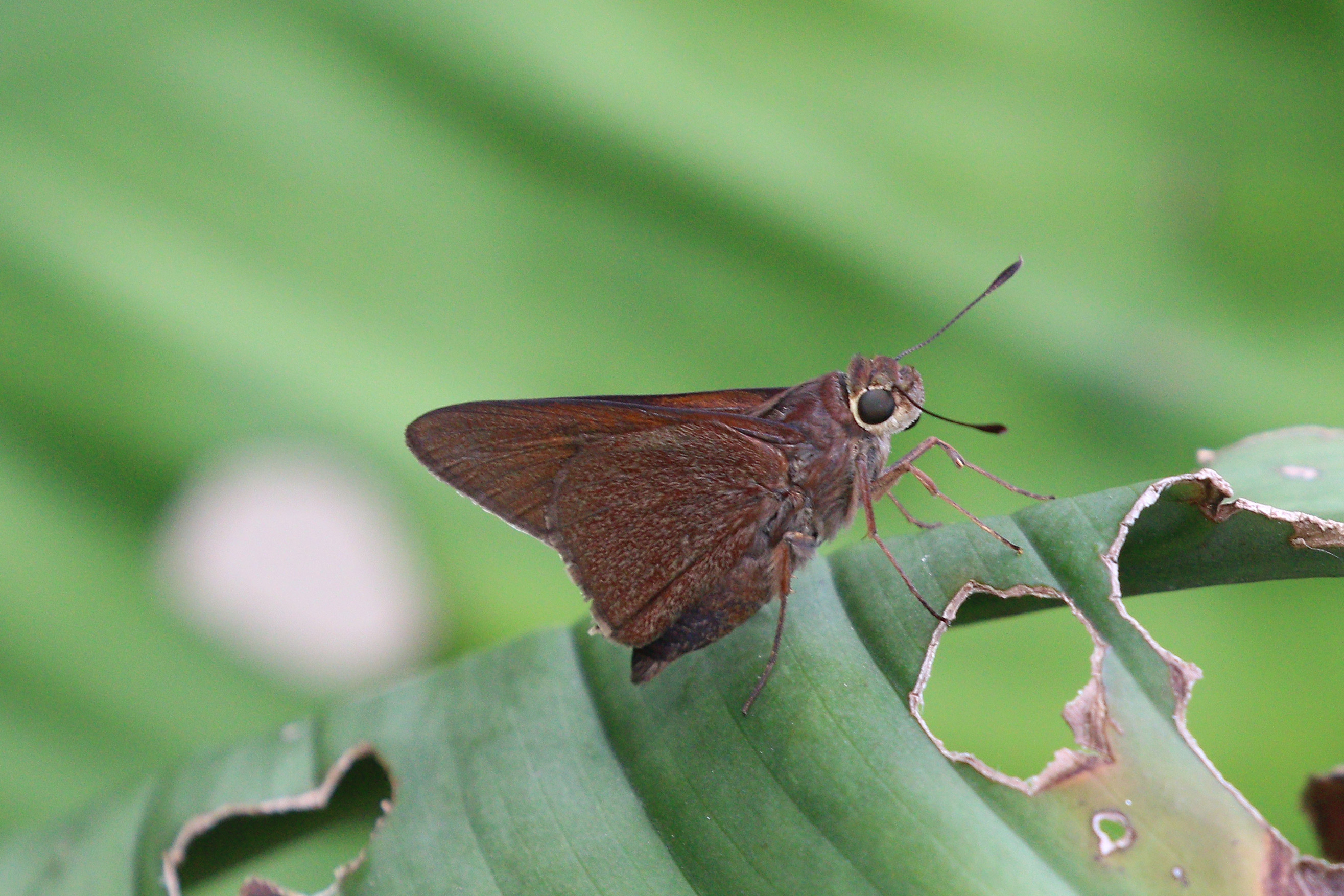 Monk (Asbolis capucinus), Grand Cayman